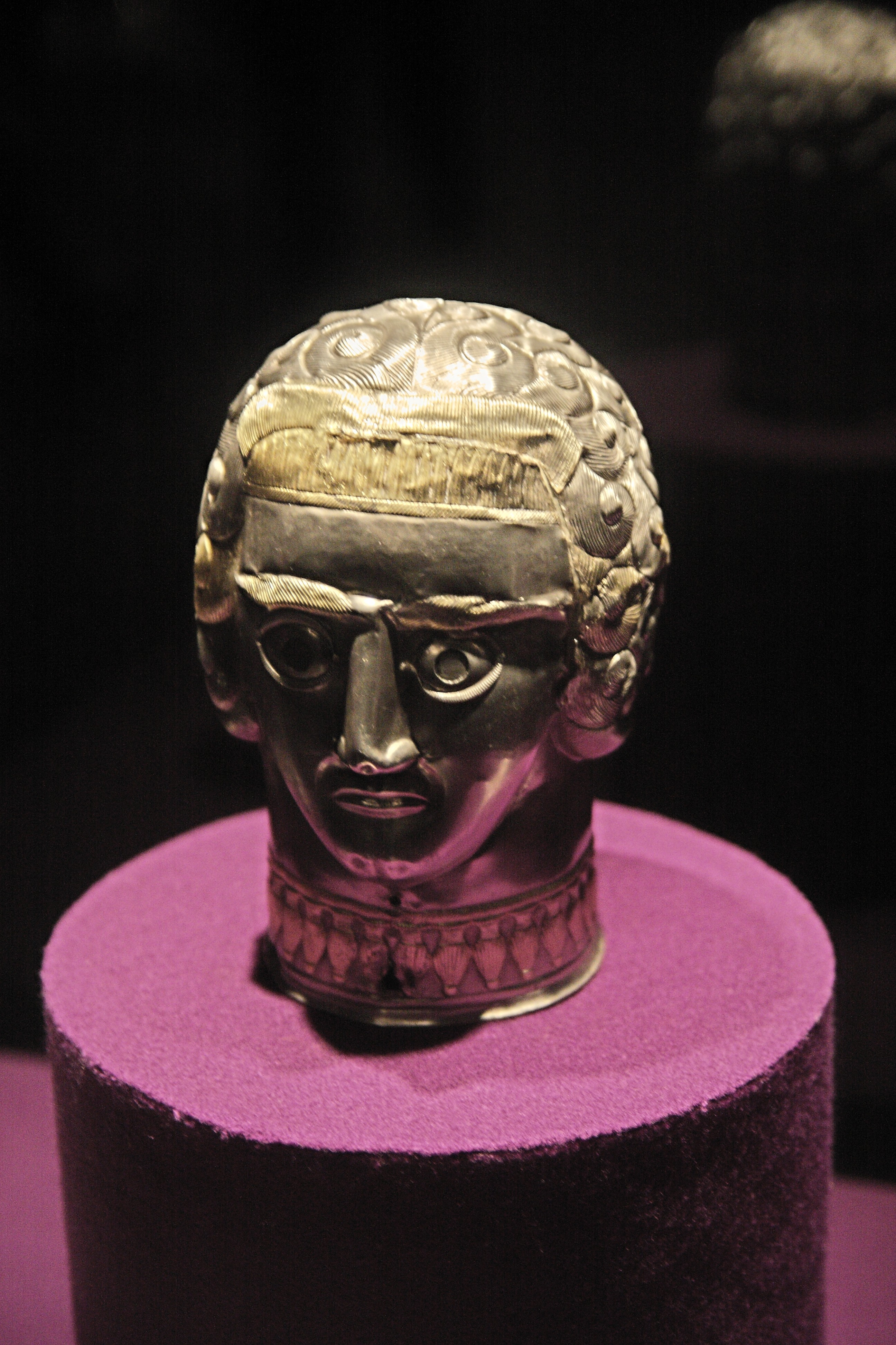 Gilded silver head used as a rhyton or a top for a military standard, from a tomb at Peretu in south-central Romania. Thracian, 4th century BC. Height approx. 23 cm. (Romanian National History Museum Treasure Aghighio)